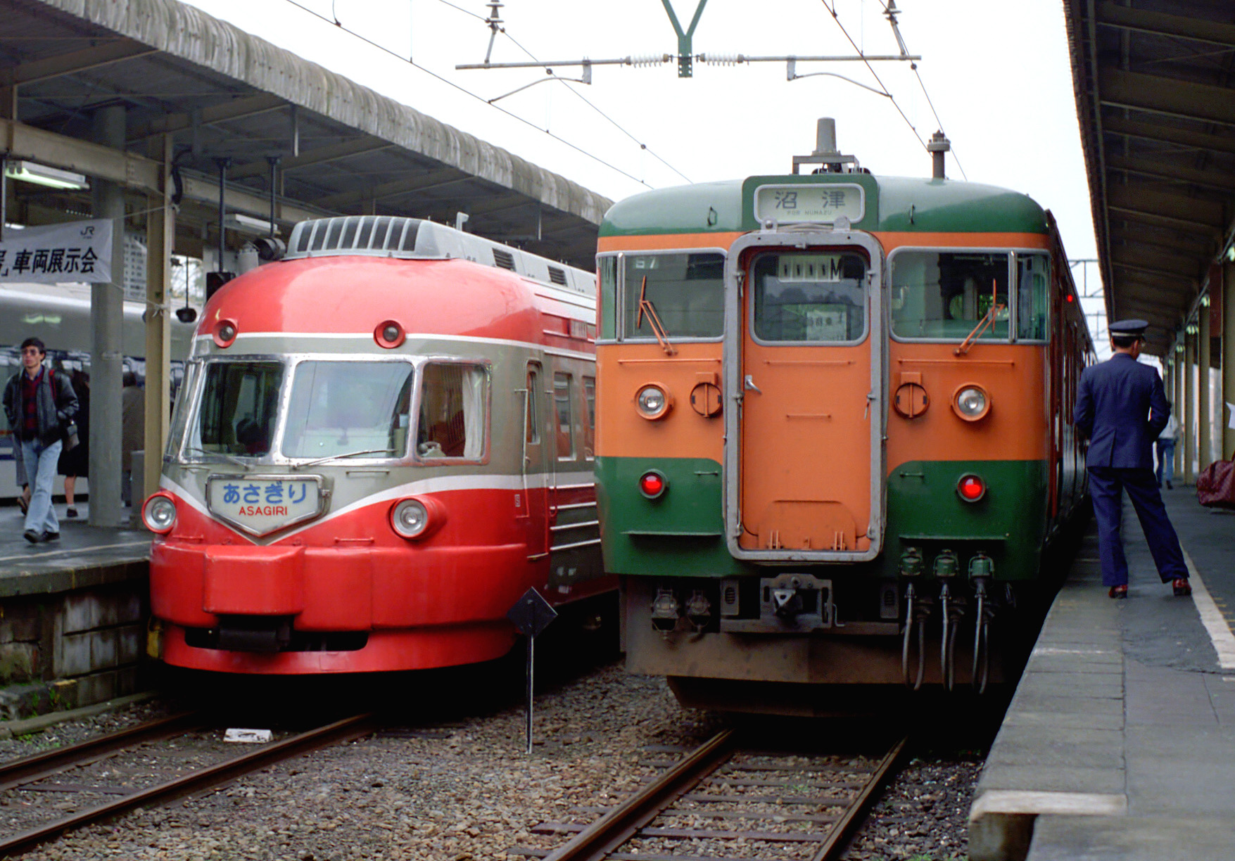 Central Japan Railway Company 115 series EMU and Odakyu Electric Railway 3000 series one at Gotenba station.